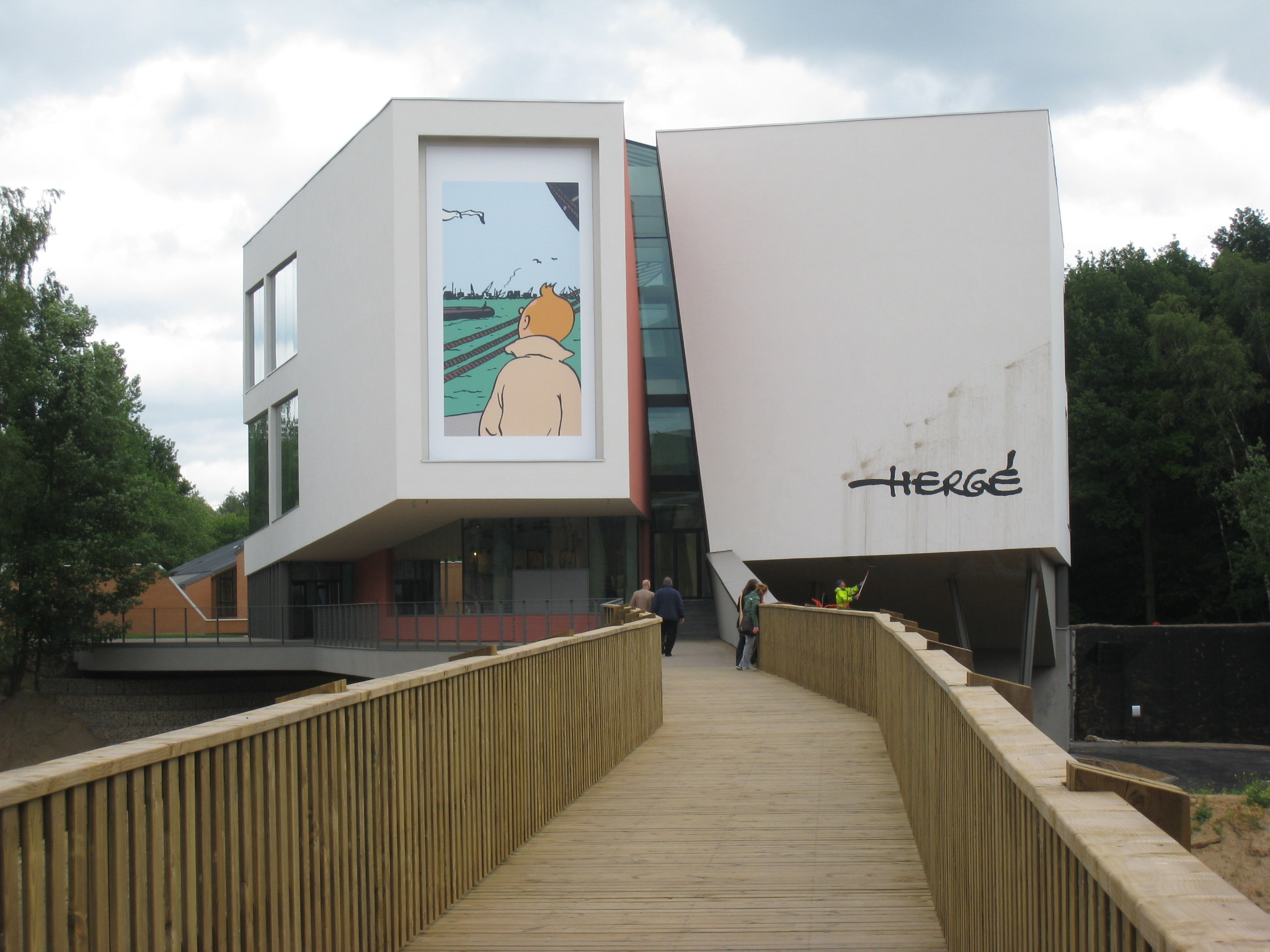 Museum Hergé, Louvain-la-Neuve, Belgium